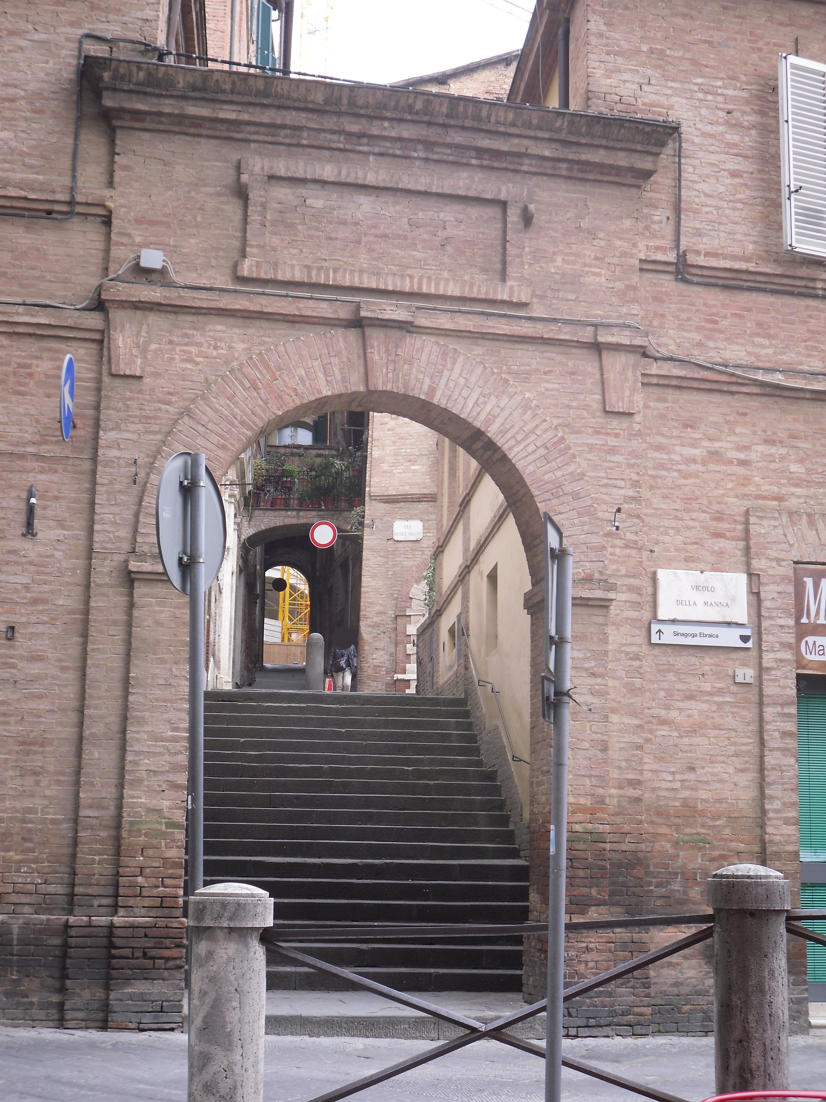 Entrance to the ancient Jewish ghetto of Siena, in "vicolo delle Scotte".